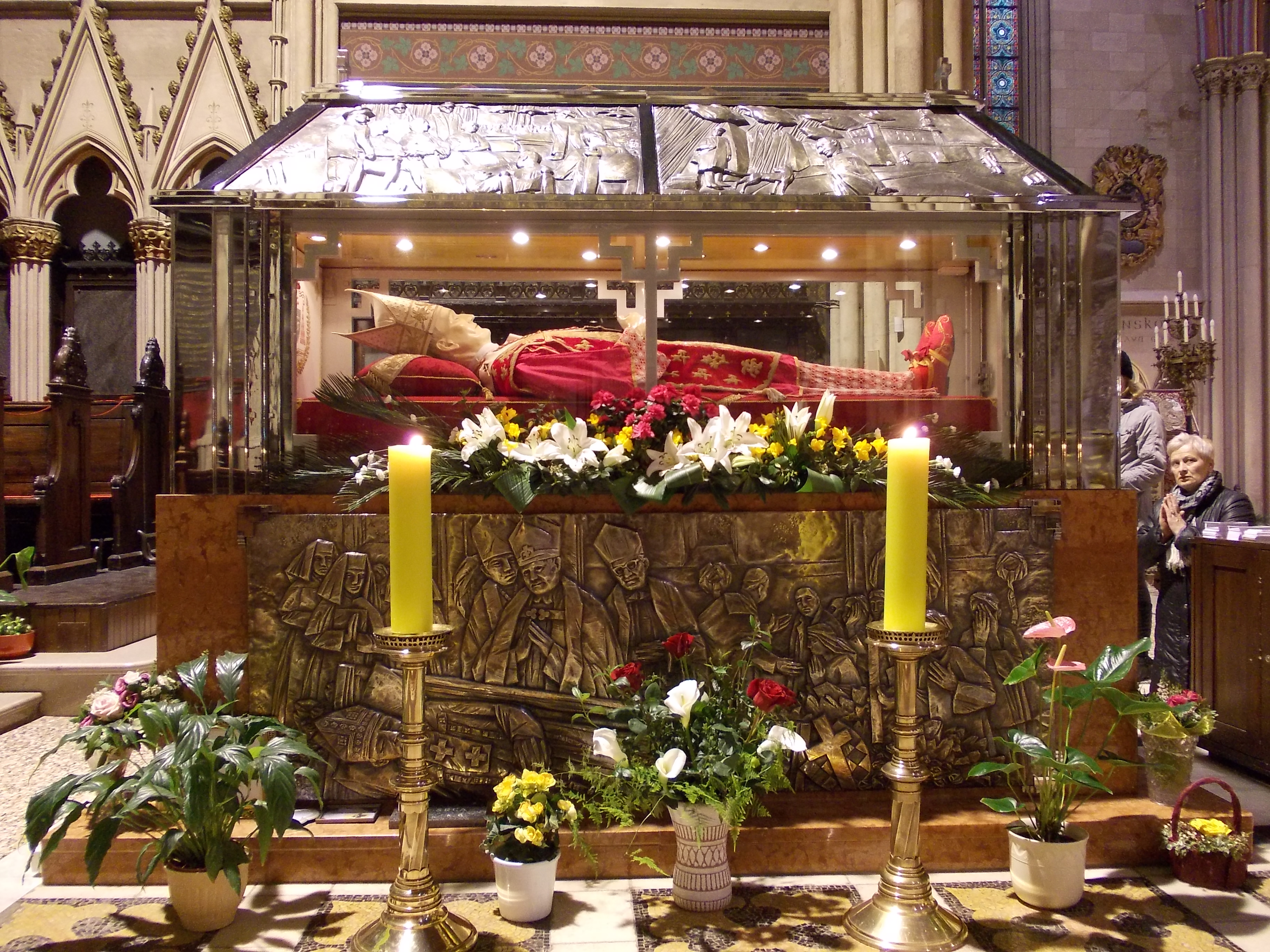 The grave of cardinal blessed Alojzije Stepinac in Zagreb Cathedral